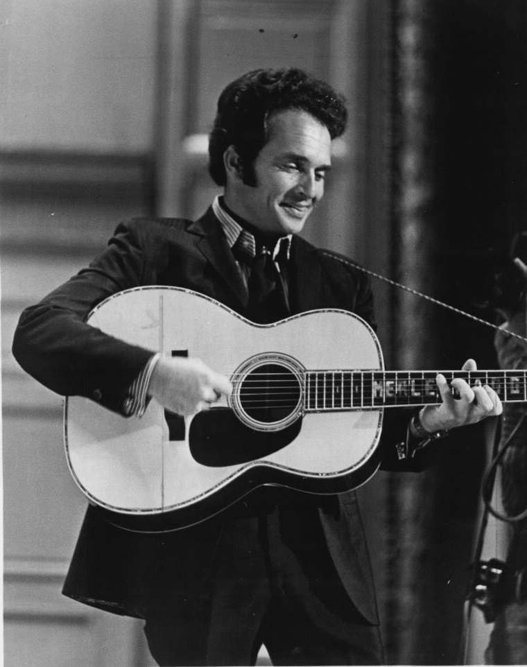 Merle Haggard, Country Music Association's performer of the year in 1971.